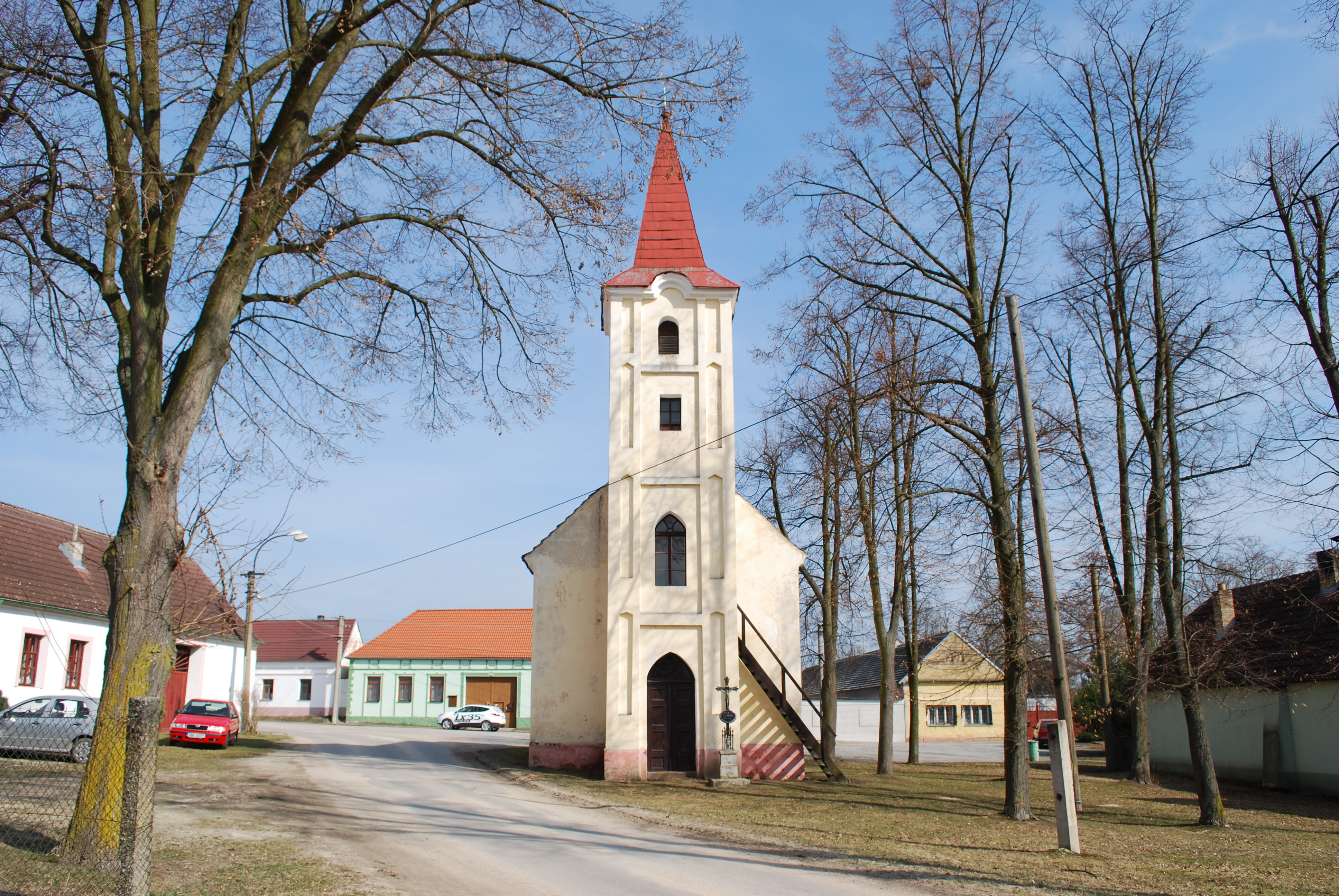 Ponědraž village in Jindřichův Hradec District, Czech republic. Church This photograph was taken within the scope of the 'Czech Municipalities Photographs' grant.